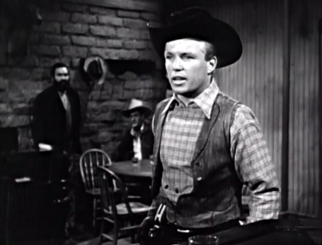 This image is a screenshot from a public domain trailer for the 1950* film, The Gunfighter. Trailers for movies released before 1964 are in the Public Domain because they were never separately copyrighted.